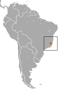 Buffy-headed Marmoset (Callithrix flaviceps) range